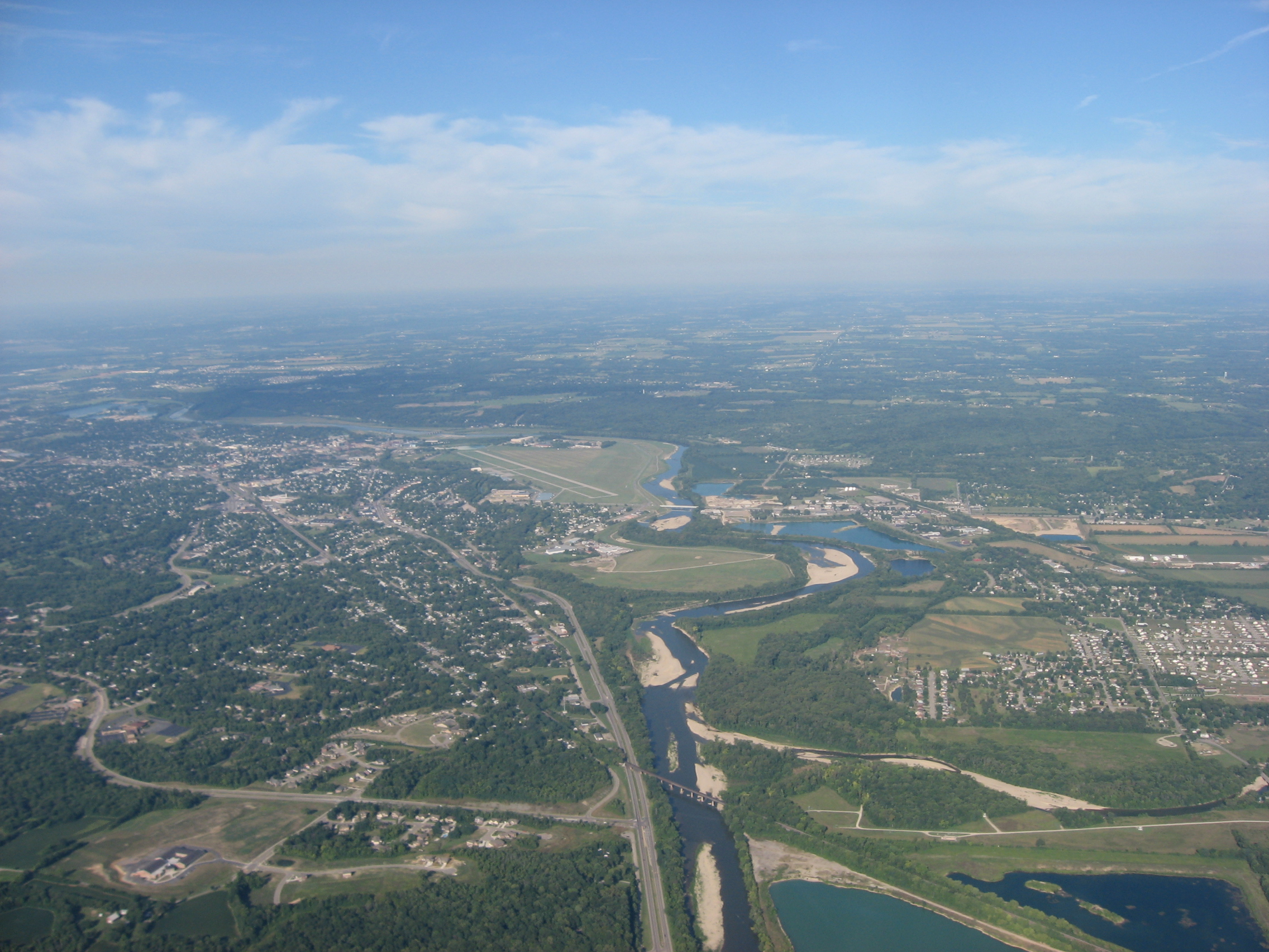 Aerial view of the Hook Field Municipal Airport, with the nearby city of Middletown to the south. The airport lies in northwestern Butler County, Ohio, United States. The stream flowing past the airport is the Great Miami River, not far above its mouth at the Ohio River. Picture taken from a Diamond Eclipse light airplane at an altitude of 4,200 feet MSL and a bearing of approximately 260º.